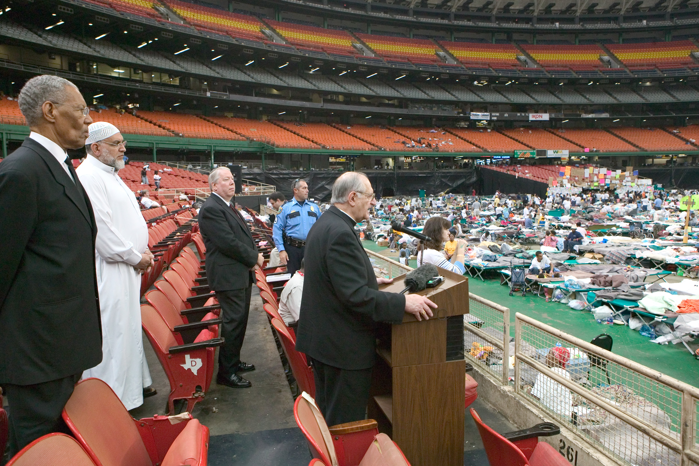 Houston,TX.,9/4/2005--Archbishop Joseph A. Fiorenza (at podium), Rev. Bill Lawson (left to right), Sheik Mustafa Mahmoud and Rabi David Rosen deliver Sunday services to Hurricane Katrina evacuees housed in the Red Cross shelter in the Houston Astrodome. FEMA photo/Andrea Booher